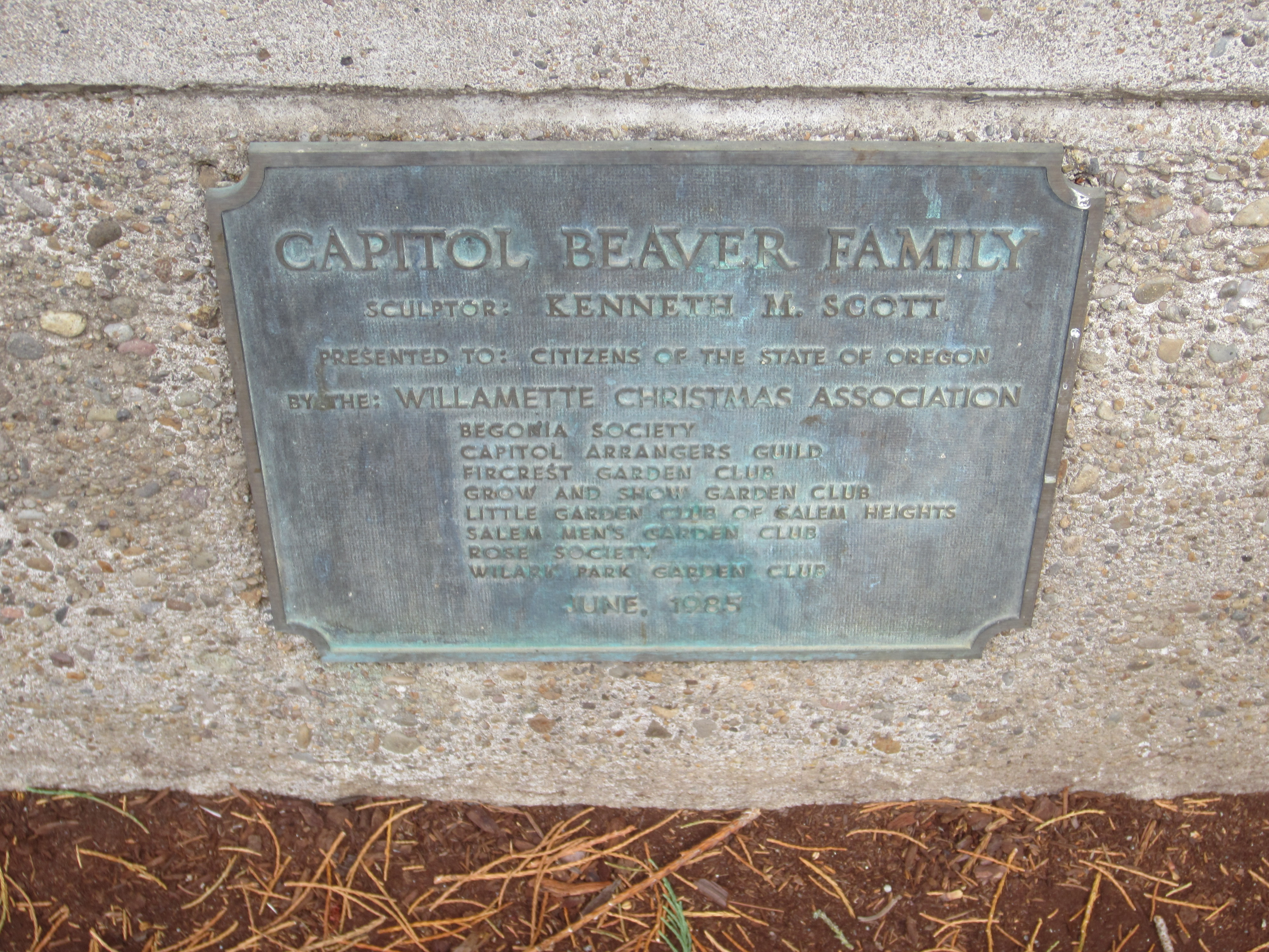 Salem, Oregon (2018)